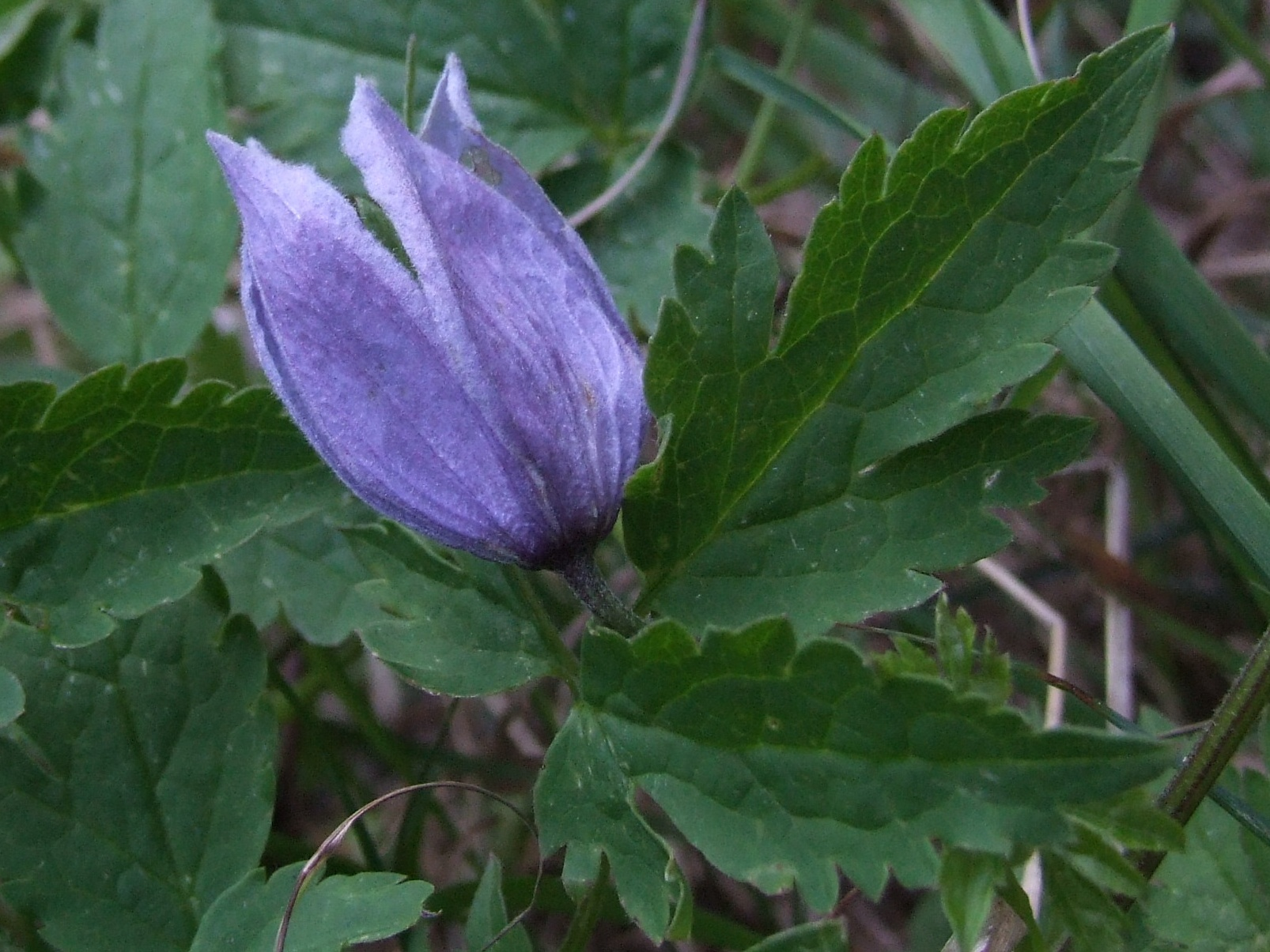 Clematis alpina (habitat:West Tatra Mountains)